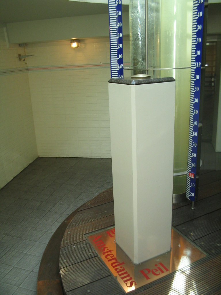 NAP (reference water level), Amsterdam, july 2005